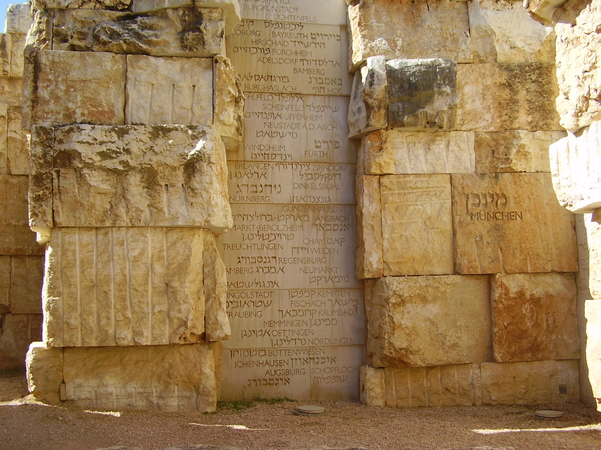 valley of the communities at yad vashem